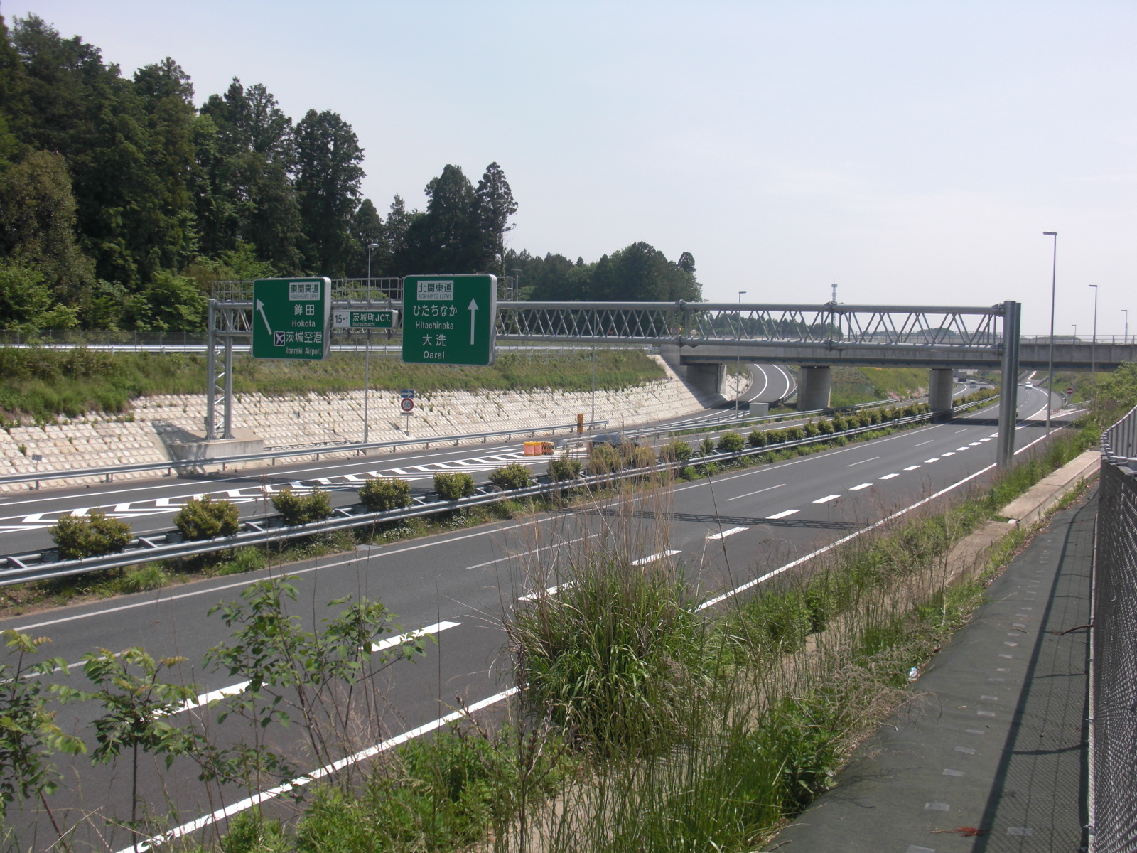 This is a photo of Ibarakimachi junction in Ibaraki town, Ibaraki prefecture, Japan.